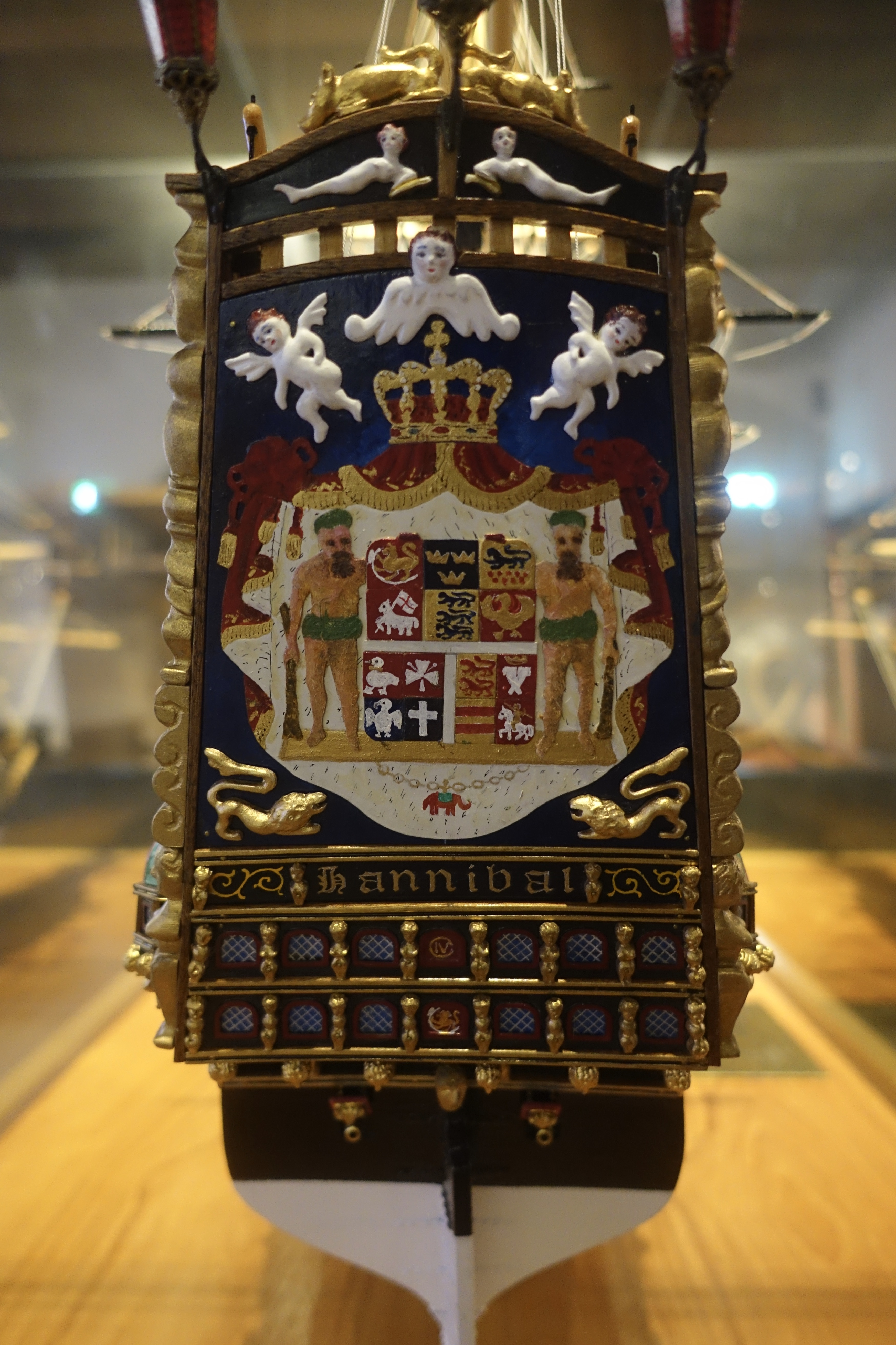 Model of Dano-Norwegian warship "Hannibal" built in Chistiania (now Oslo, Norway) 1645–47, renamed "Svanen" ("The Swan") 1658, condemned 1716. From the exhibitions at the Armed Forces Museum (Forsvarsmuseet) in Oslo, Norway.